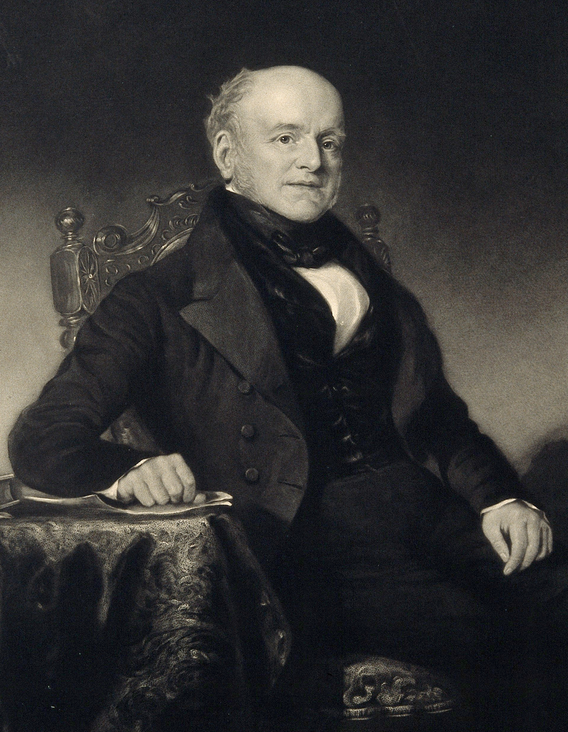 Portrait of Edward Holme (1770–1847), English physician.